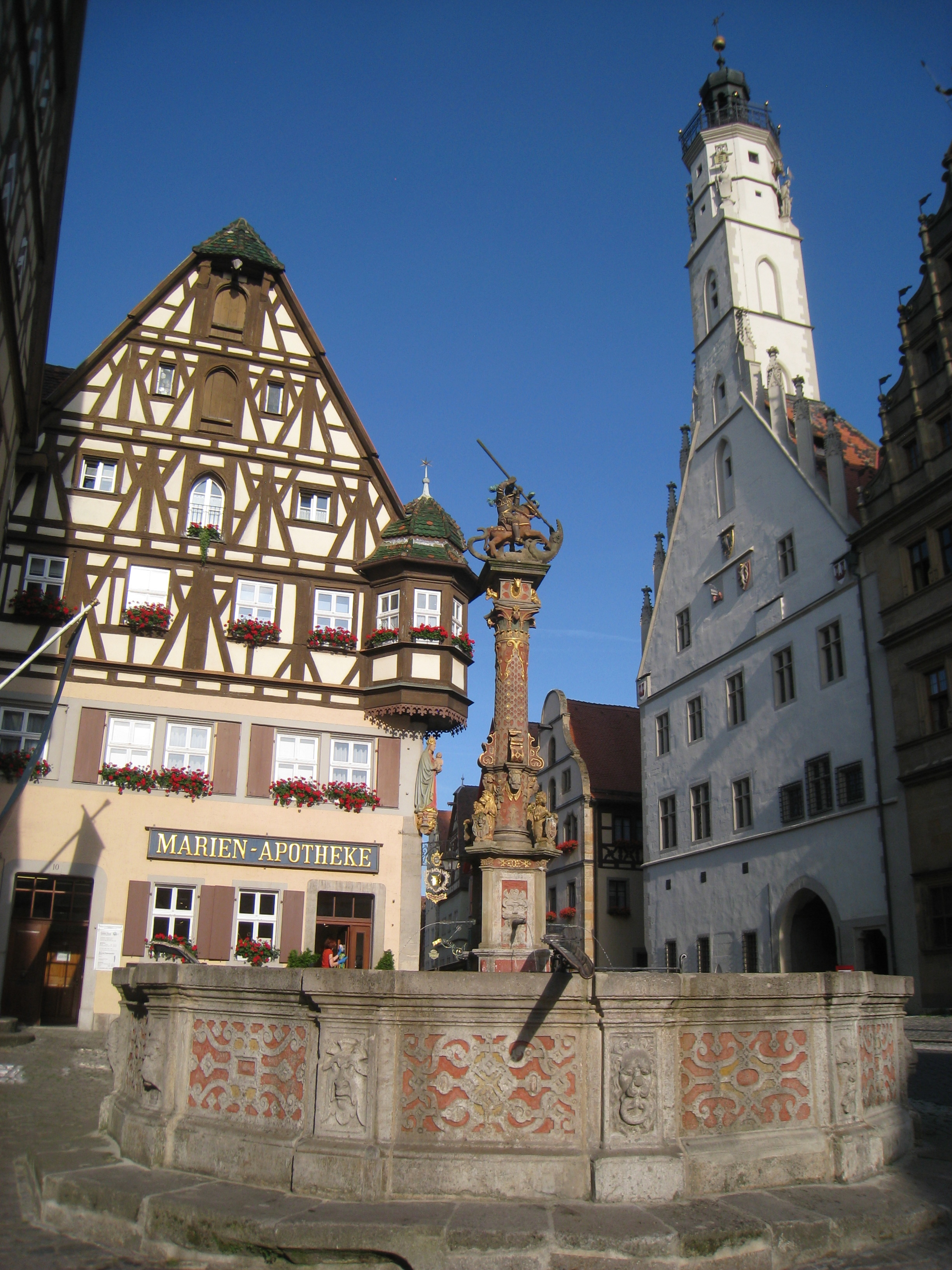 Fountain in Rothenburg ob der Tauber, Germany.